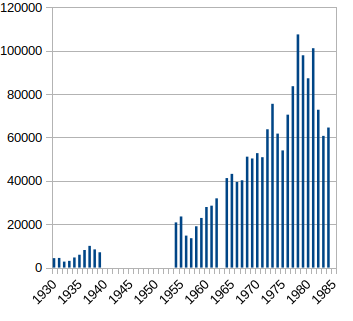 Registration figures for passenger cars in Ireland 1930-1984